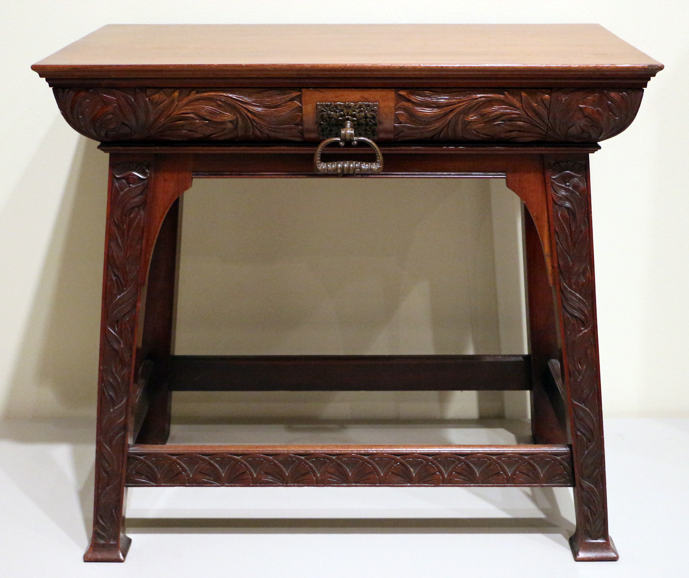 European furniture in the Art Institute of Chicago